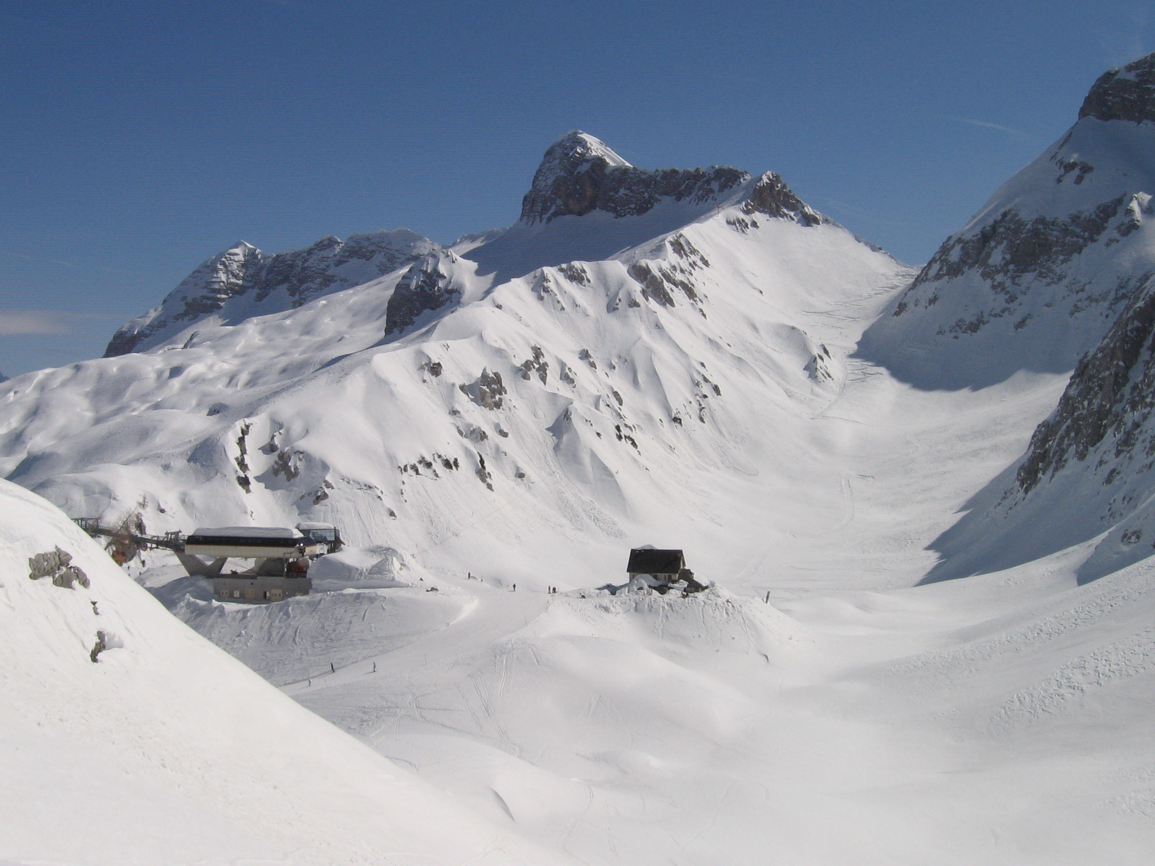 Mount Lopa above Prevala valley, with Rifugio Celso Gilberti, on the boarder between Italy and Slovenia